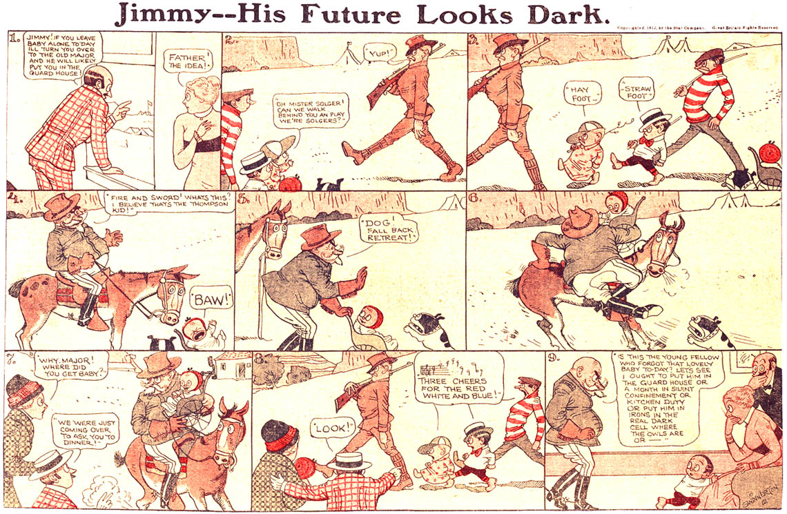 Little Jimmy Sunday comics page